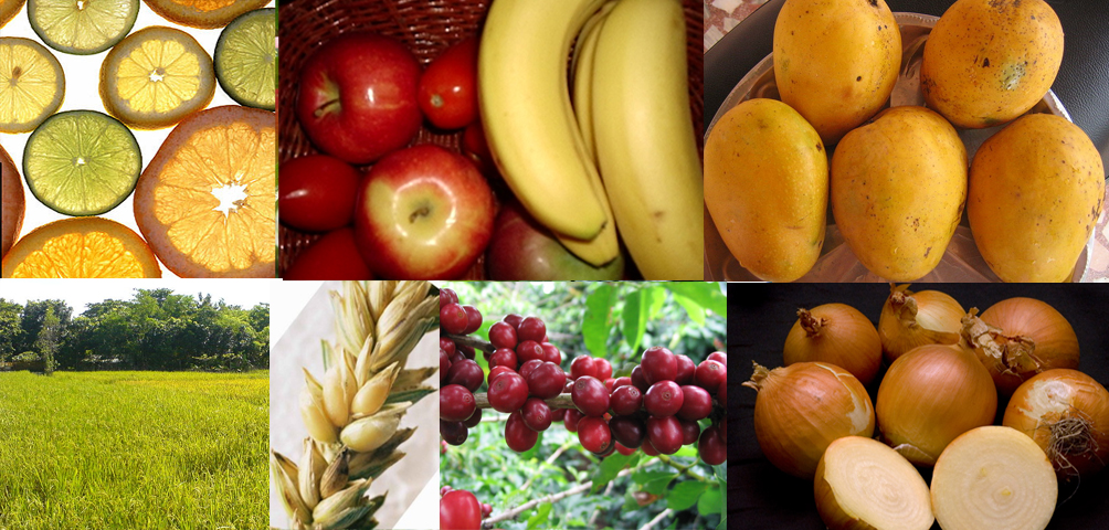 Montage of some Old World Domesticated plants. Clockwise, starting from top left: 1. Citrus (Rutaceae); 2. Apple (Malus domestica); 3. Banana (Musa); 4. Mango (Mangifera); 5. Onion (Allium); 6. Coffee (Coffea); 7. Wheat (Triticum spp.); 8. Rice (Oryza sativa)